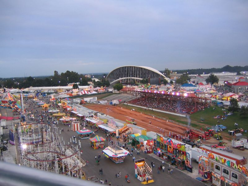 North Carolina State Fair See where this picture was taken. [?]